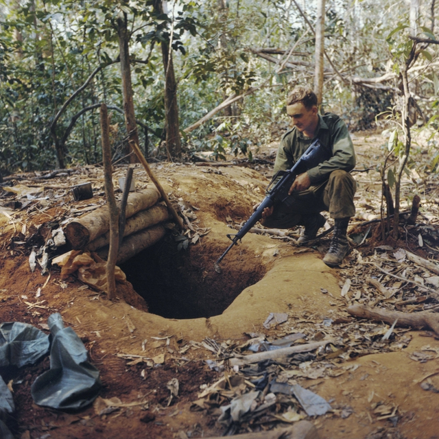 South Vietnam, 22 January 1969. A soldier of the 9th Battalion, The Royal Australian Regiment (9RAR), aims his rifle down a Viet Cong (VC) underground bunker and tunnel system found during Operation Goodwood.